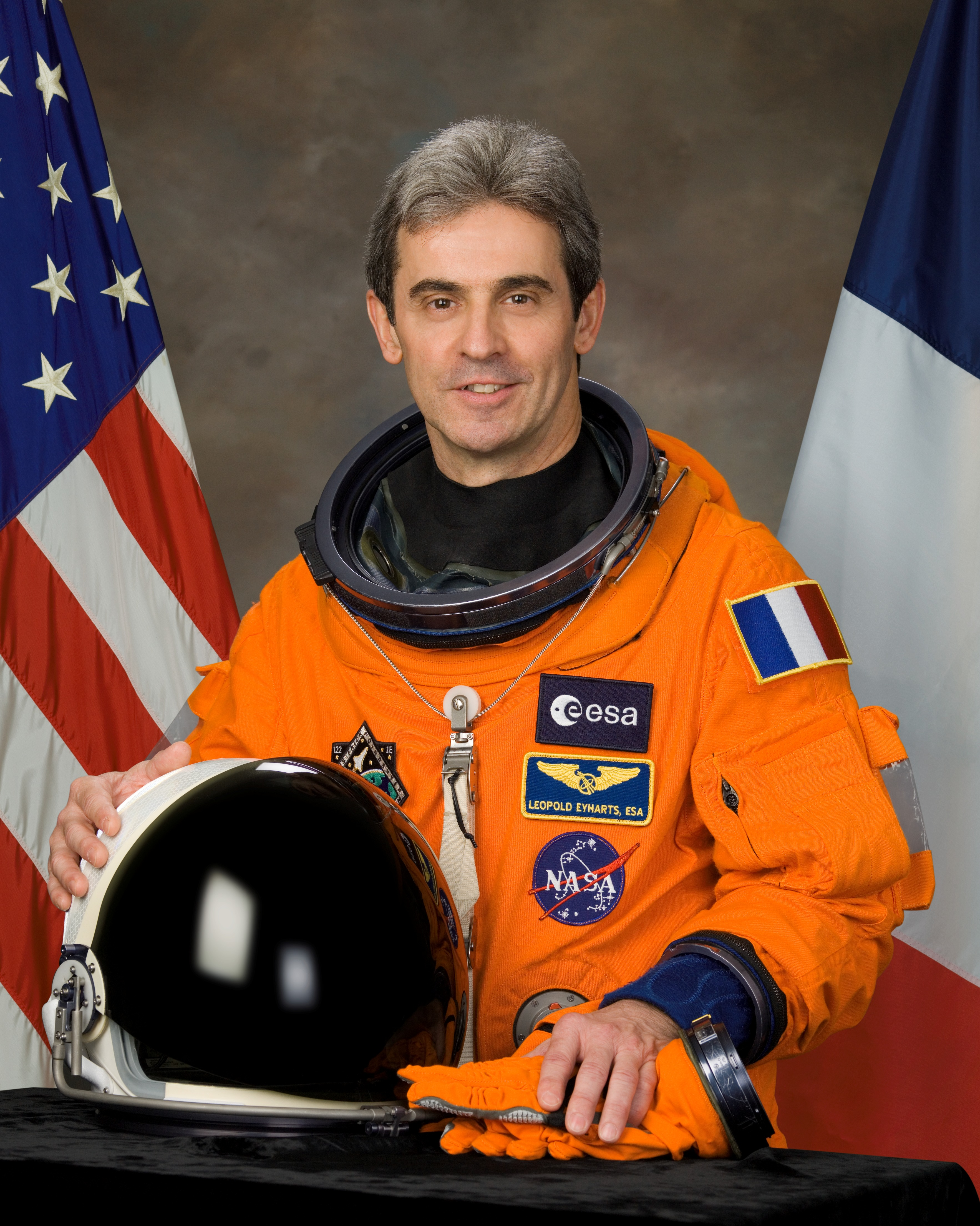 Official portrait image of ESA astronaut Leopold Eyharts of France, mission specialist of STS-122.